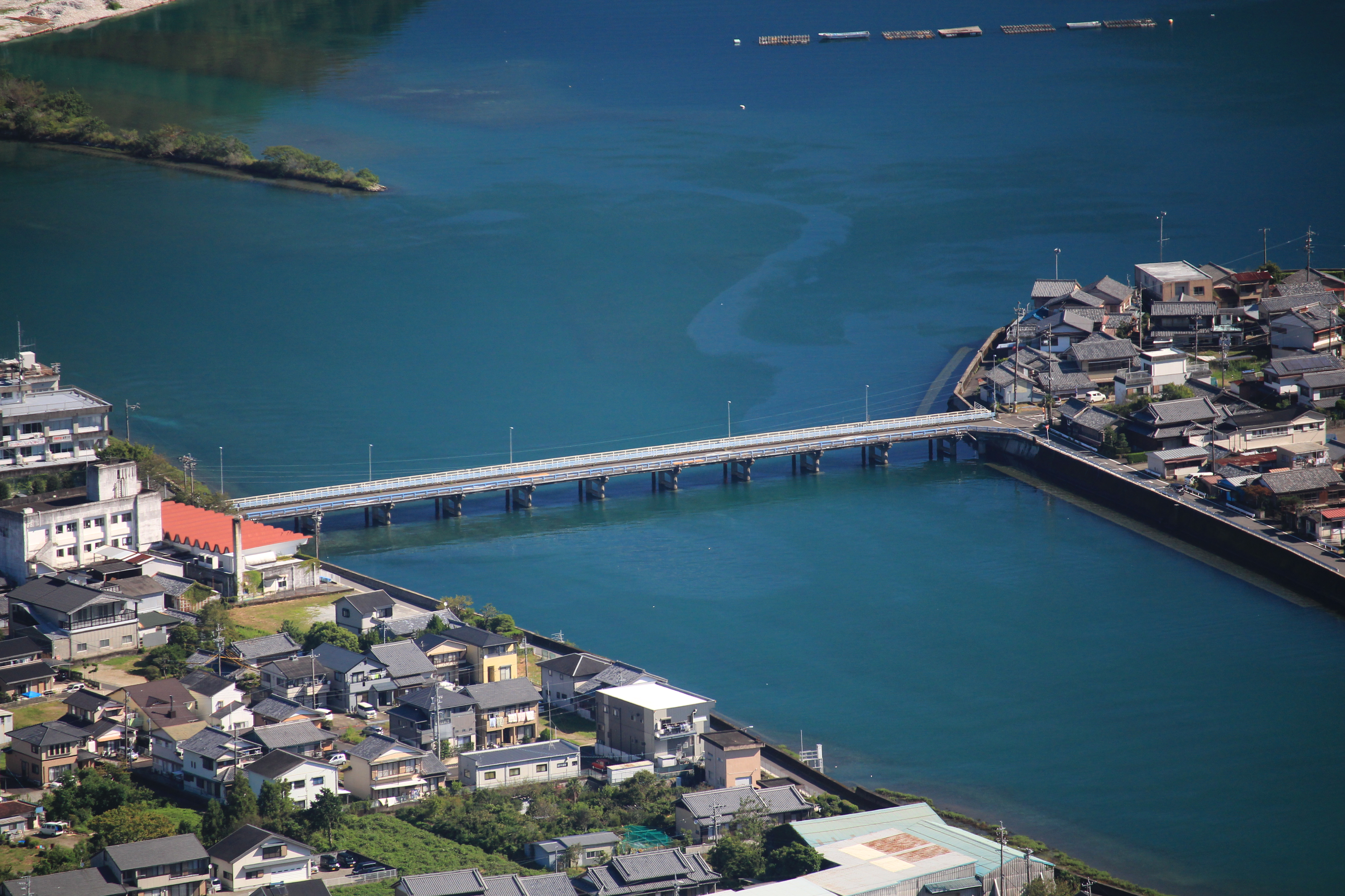 Aiga Bridge of over Funazu River